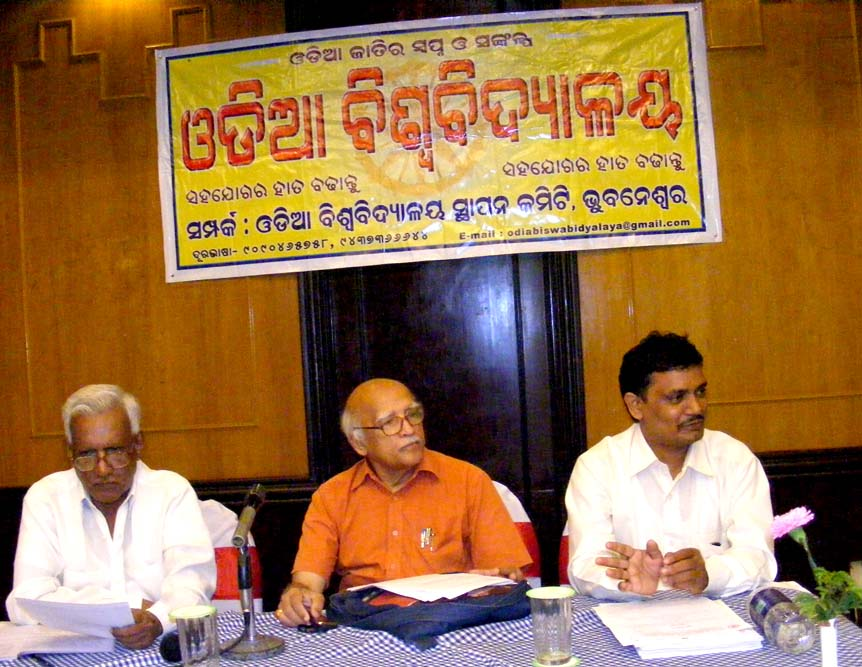 A Metting at Hotel Swasti on establish for Odia University